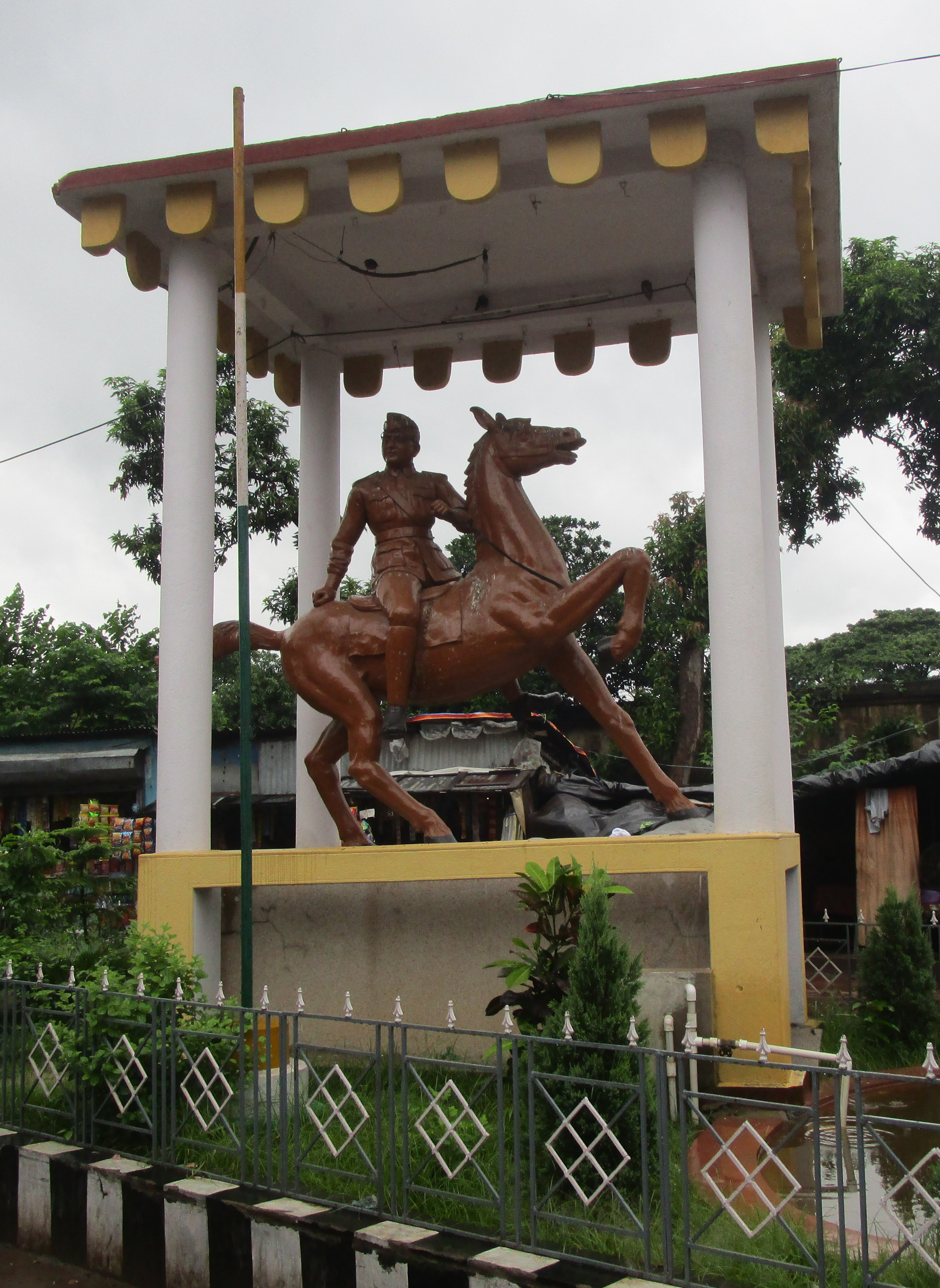 The statue of Subhas Bose at Bangaon Railway Station